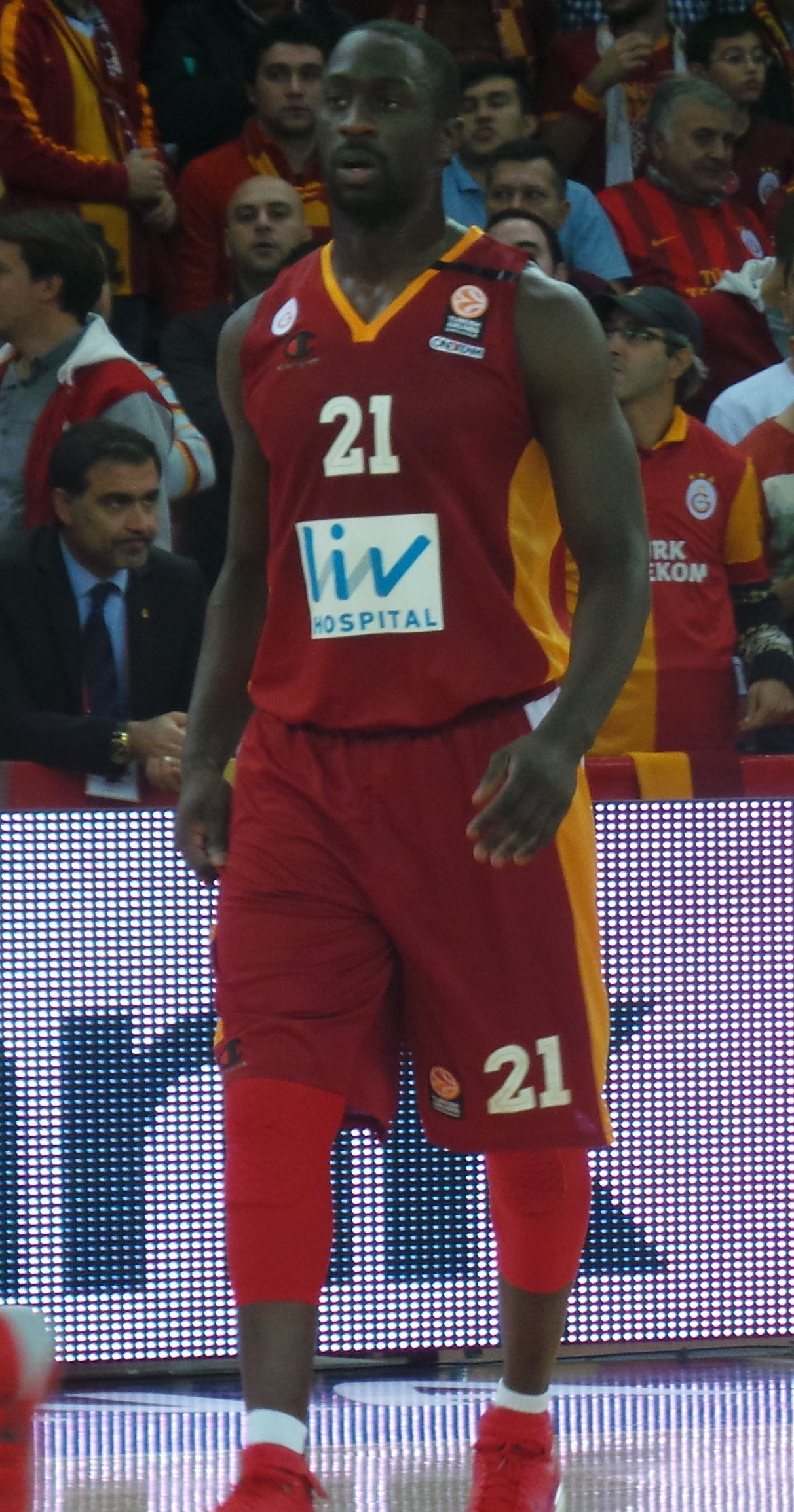 Pops with GS @Bayern Münih match